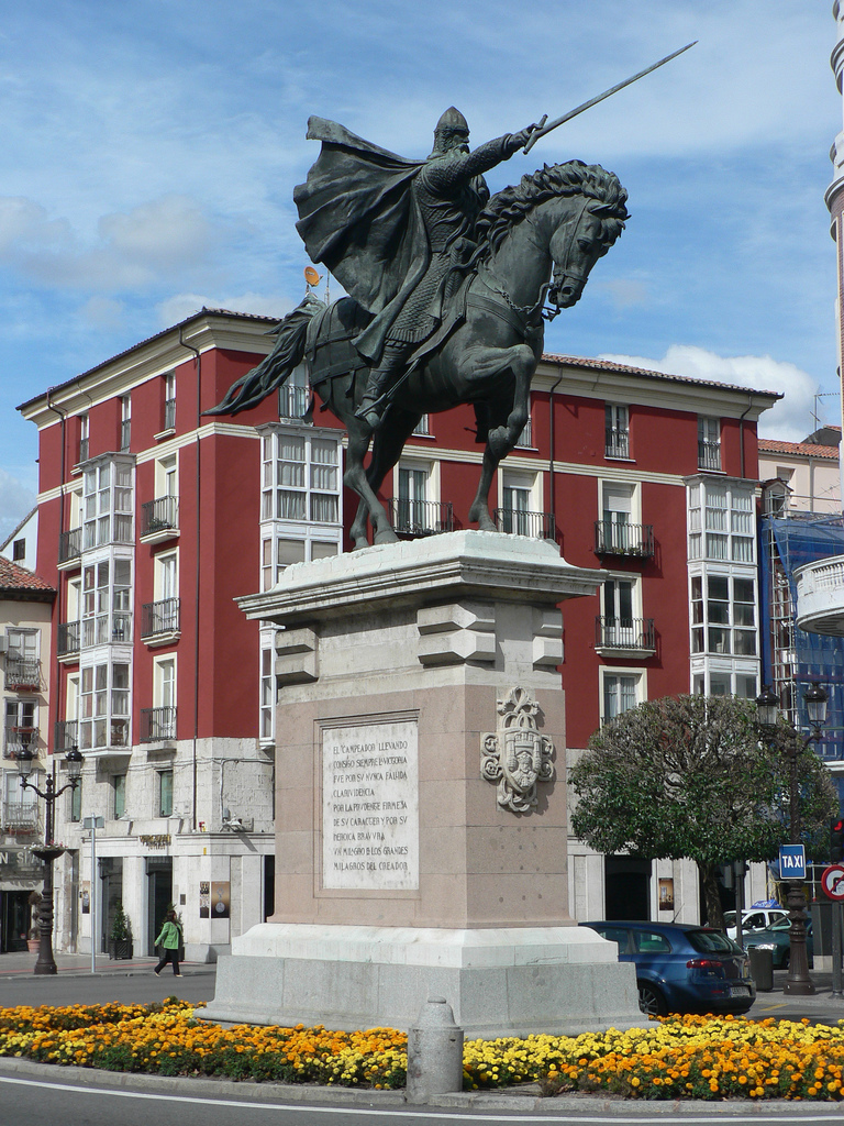 The Monument to the Cid in Burgos (Castile and León, Spain), unveiled in 1955. Bronze equestrian statue was sculpted by Juan Cristóbal González Quesada (1897–1961).